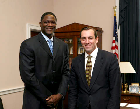 Congressman Vito Fossella met with NBA hall of famer Dominique Wilkins to discuss the escalating diabetes crisis in the United States